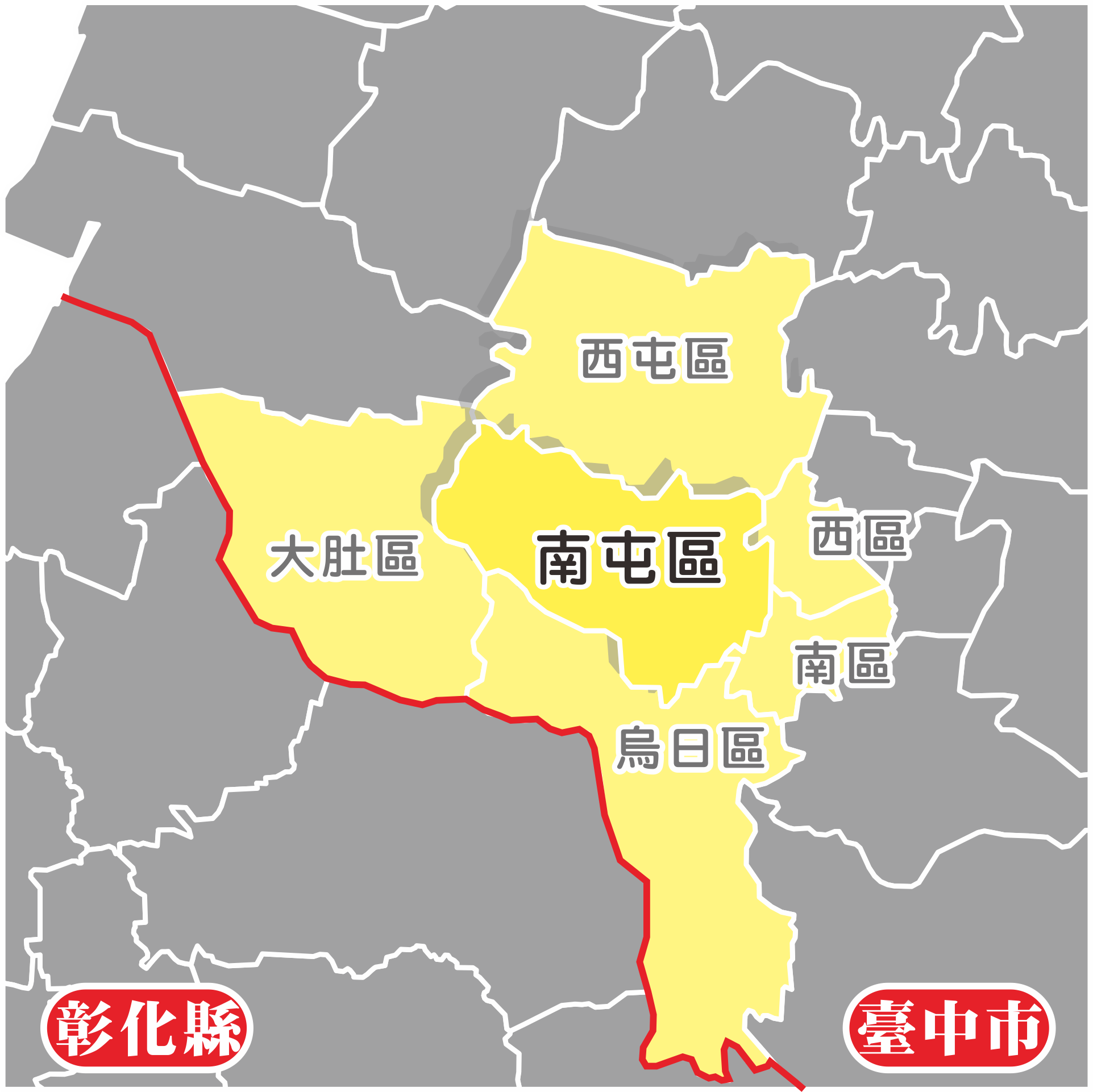 Nantun District